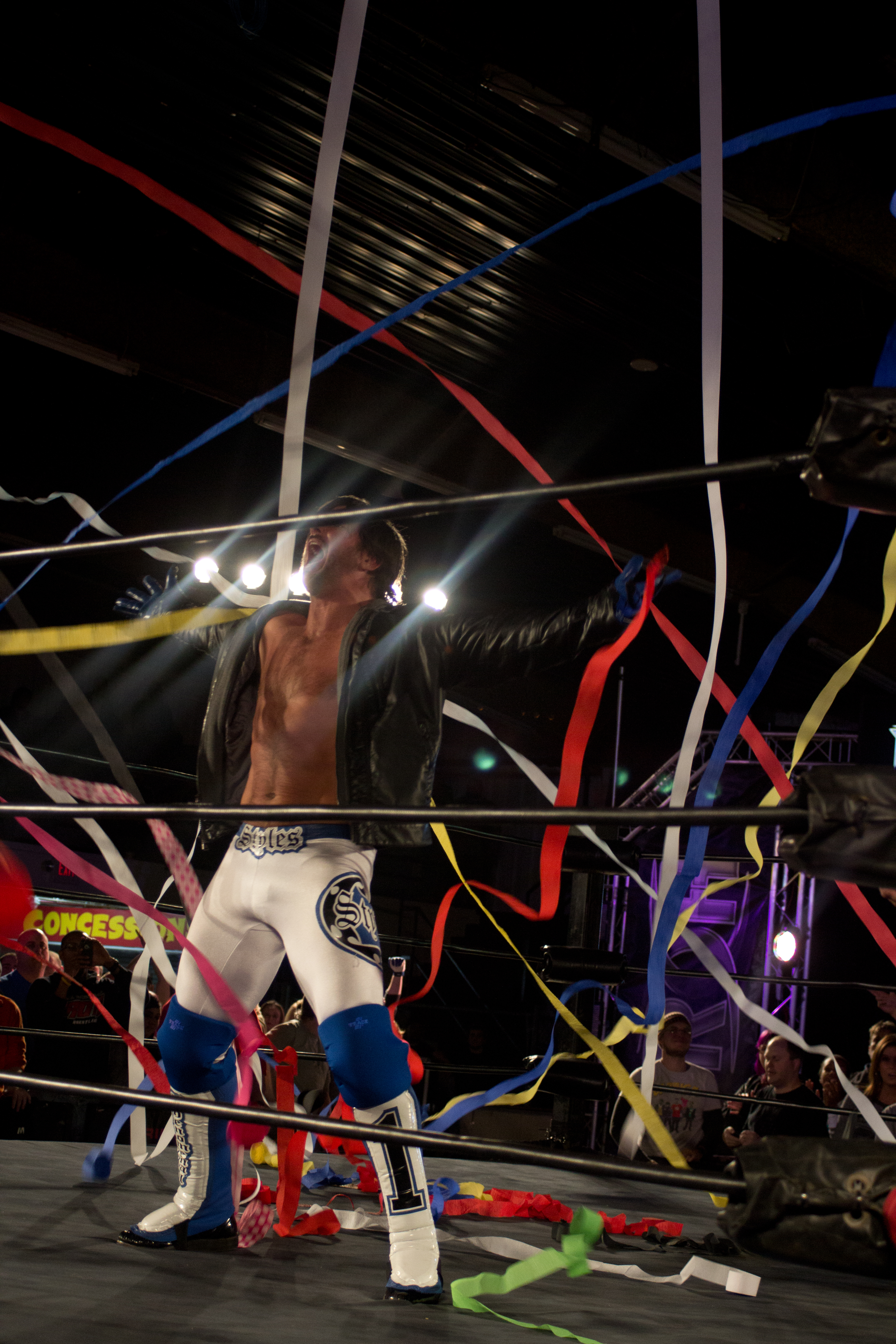 AJ Styles during his return to the ROH in 2014.